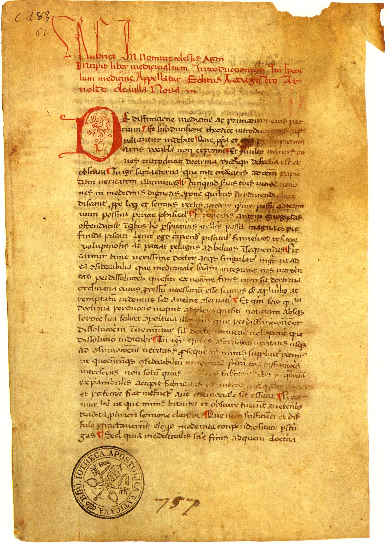 Arnaldus de Villanova, Speculum medicinae, in ms. Biblioteca Apostolica Vaticana, Vaticanus Palatinus lat. 1818, fol. 1r.